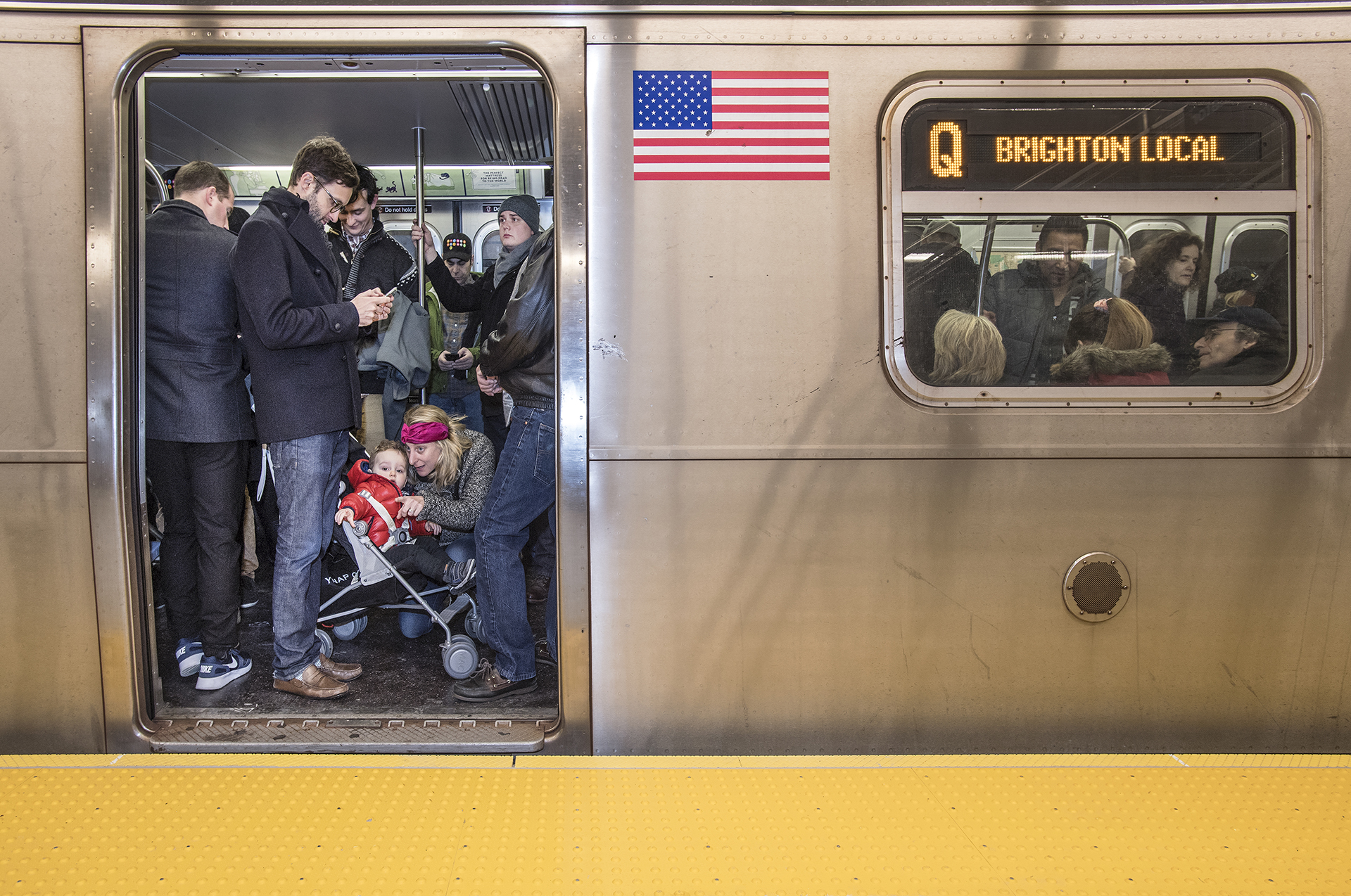 First riders aboard the Second Avenue Subway on January 1, 2017. Photo: Metropolitan Transportation Authority / Patrick Cashin